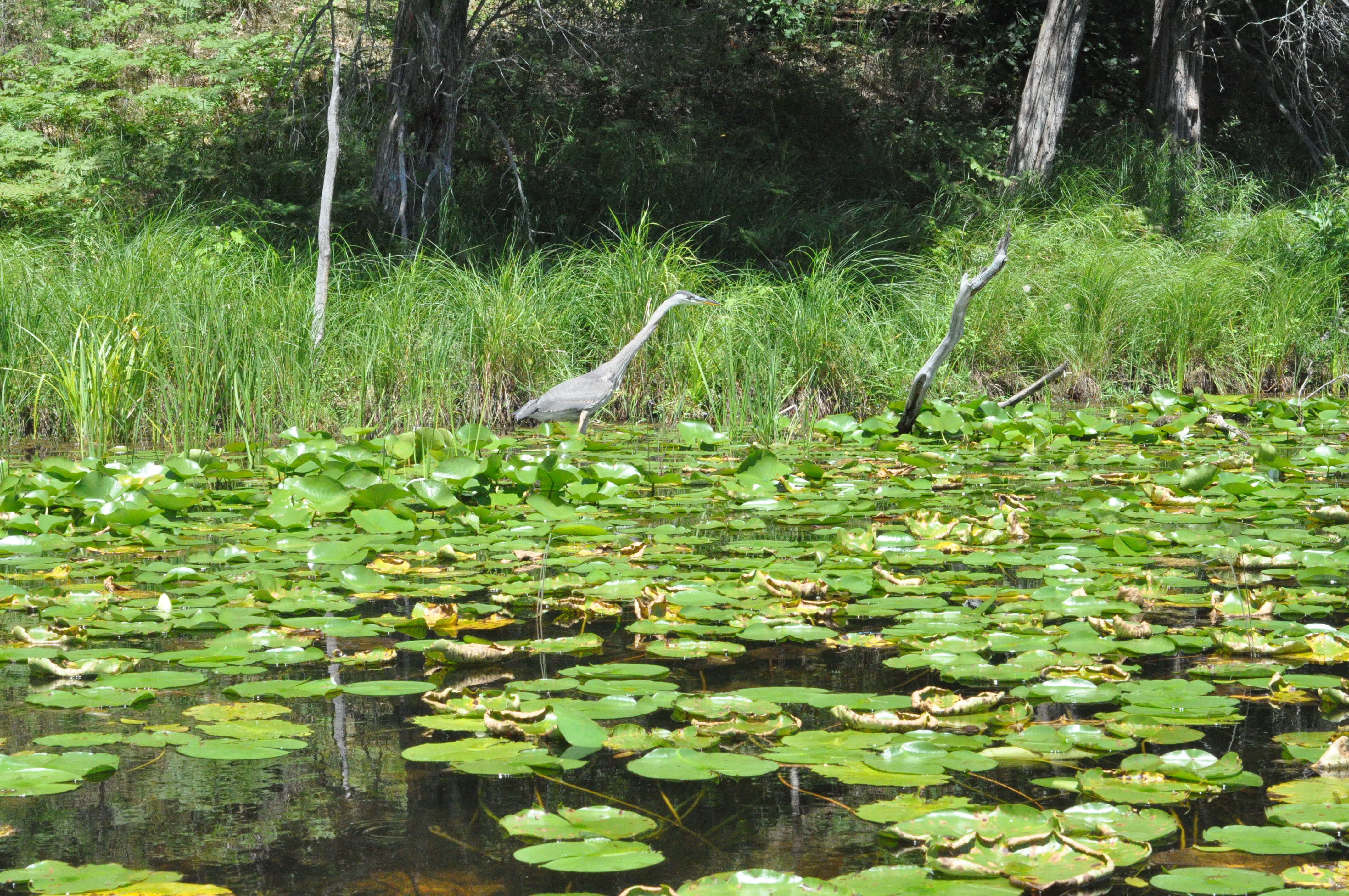 A Great Blue Heron fishing along the shore of the Old Ausable Channel in Pinery Provincial Park, photographed from canoe. This photo was taken in a protected area in Canada, Wikidata item The Pinery Provincial Park (Q7195555)